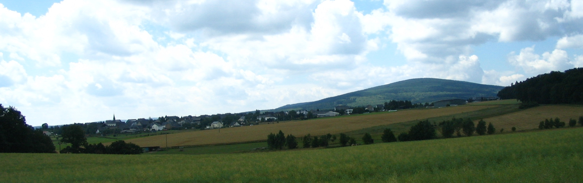 Gösenroth in the Hunsrueck region, Germany